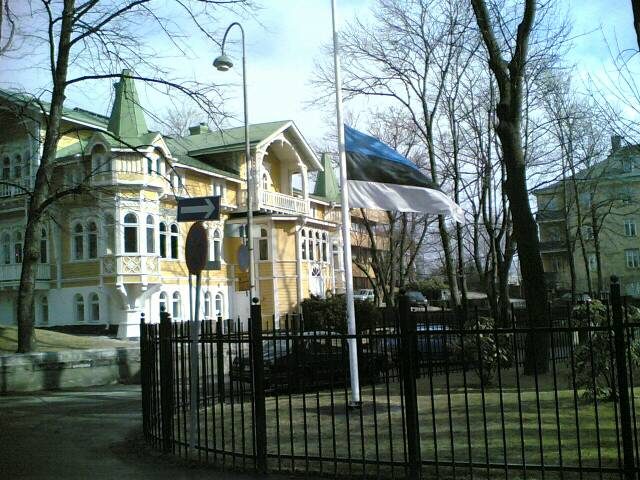 Embassy of Estonia in Helsinki In the Embassy Village, for the pope's funeral